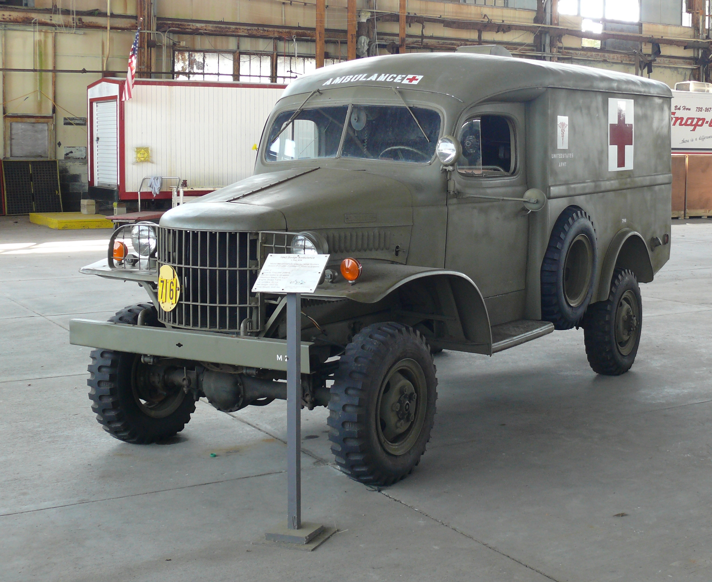 The Dodge WC-27 is a model in the lightweight and versatile Dodge half-ton 4x4 G505 WC series of trucks that were built during 1941 and 1942. They were the first Dodge all-military design developed in the build-up to full mobilization for World War II. The series included weapon carriers, telephone installation trucks, ambulances, reconnaissance vehicles, mobile workshops and command cars. The Dodge WC-27 entered production during 1941 to early 1942 and were specifically designed to serve as military ambulances. These early variants are distinguishable from the later ones by having a curved radiator grille.